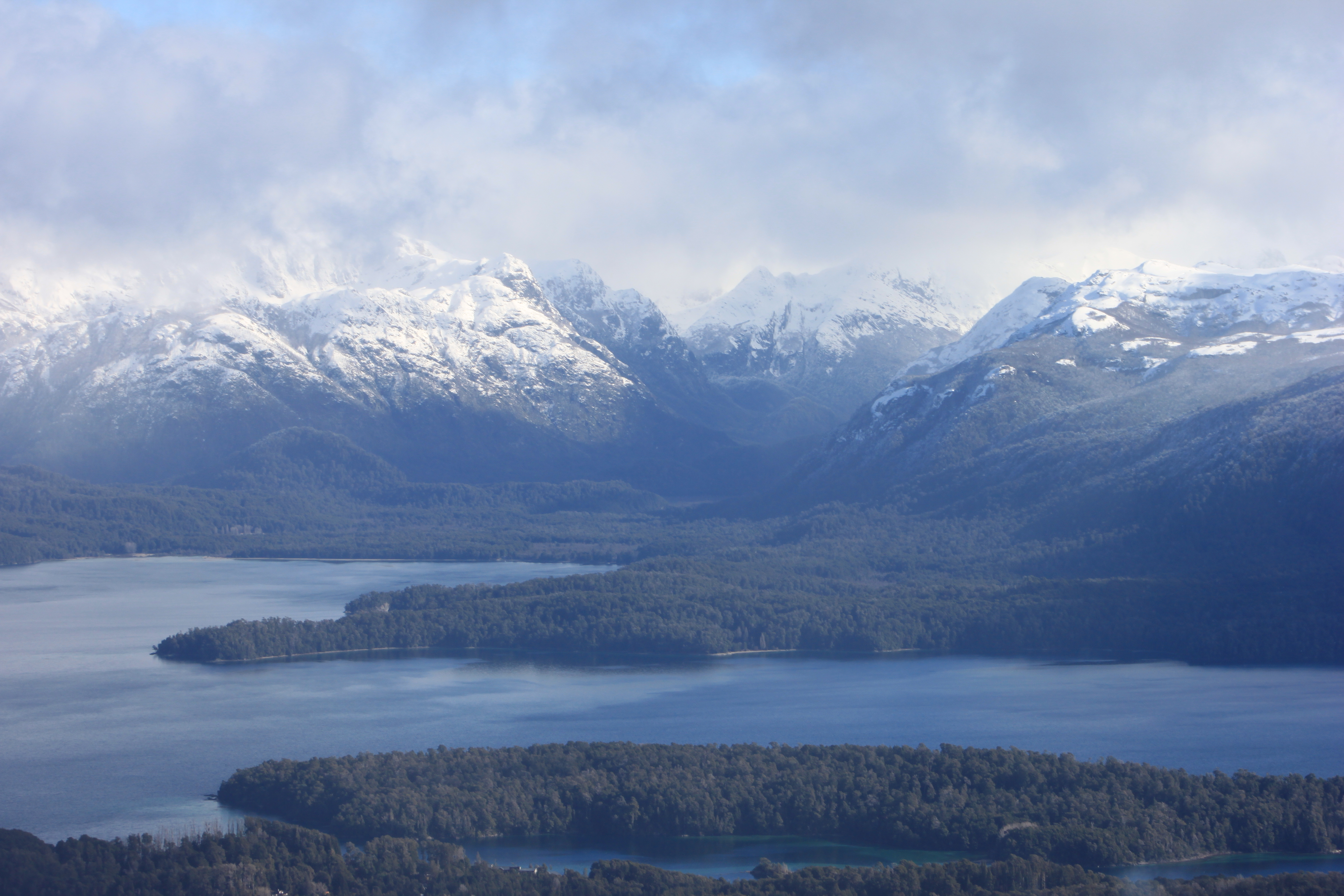 Cerro Bayo, centro de esqui . Belleza sin palabras .